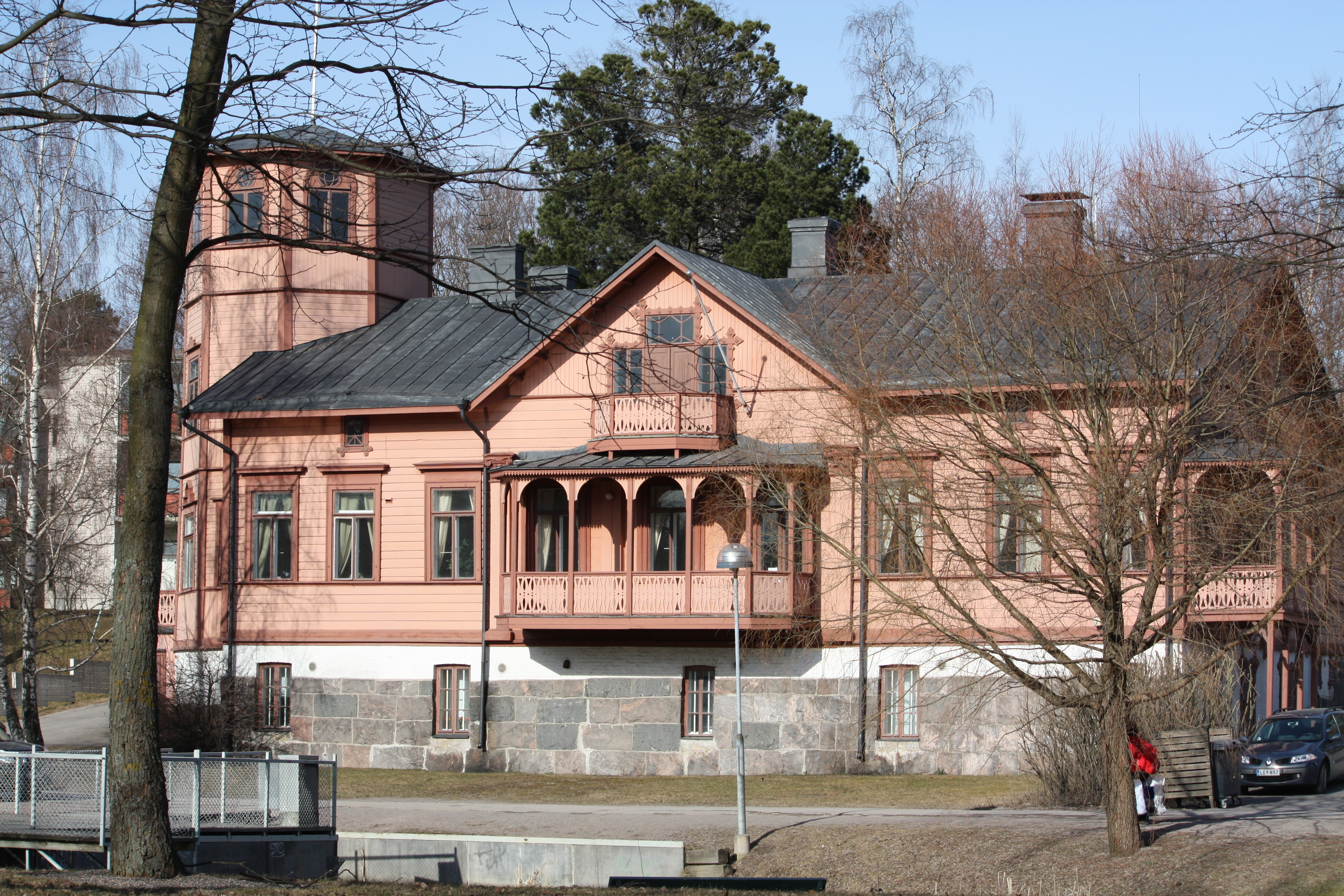 Oulunkylän seurahuone in Helsinki